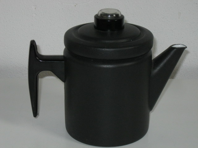 Coffee pot design Antti Nurmesniemi in matte black enamel.